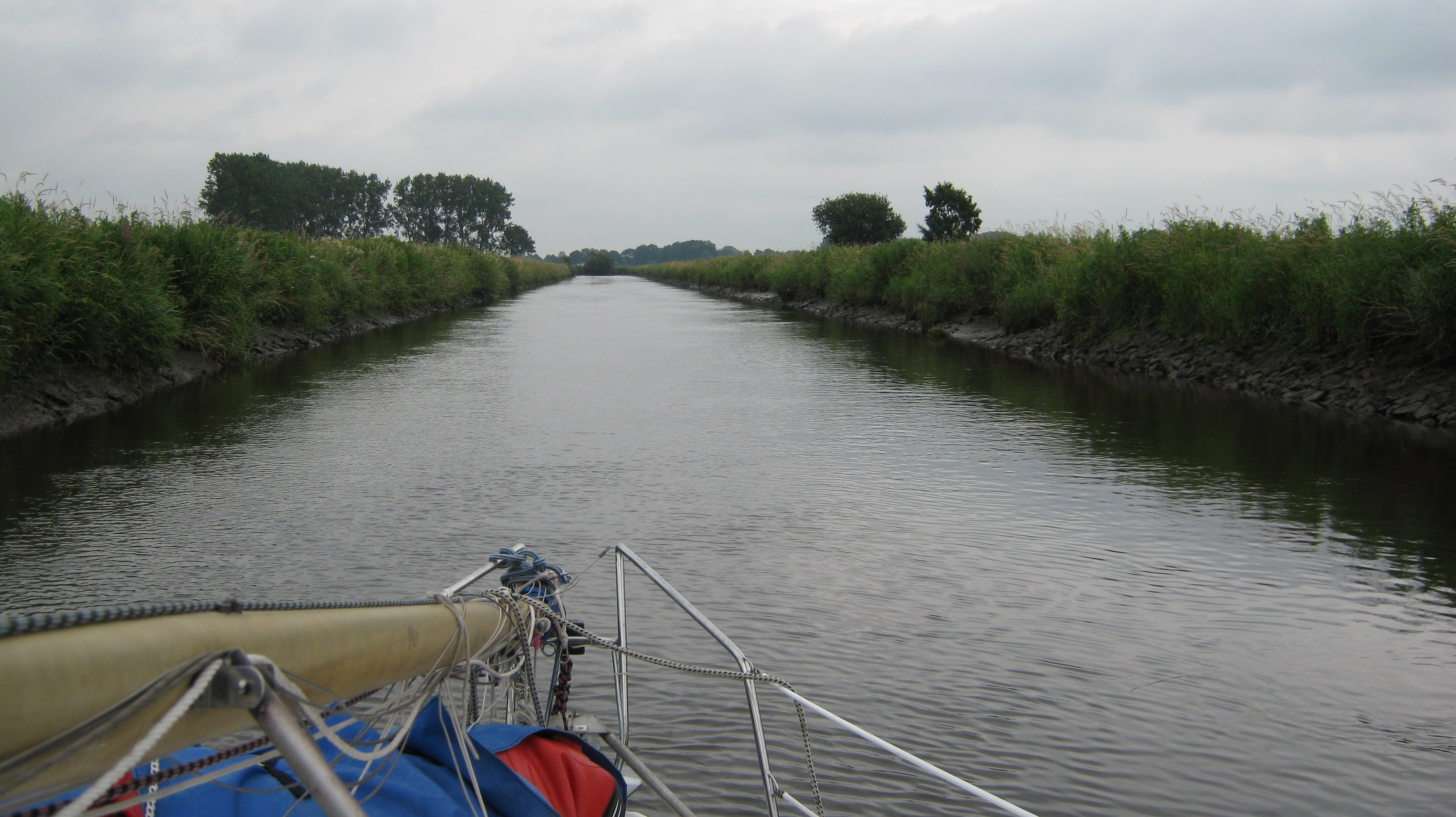 Jümme